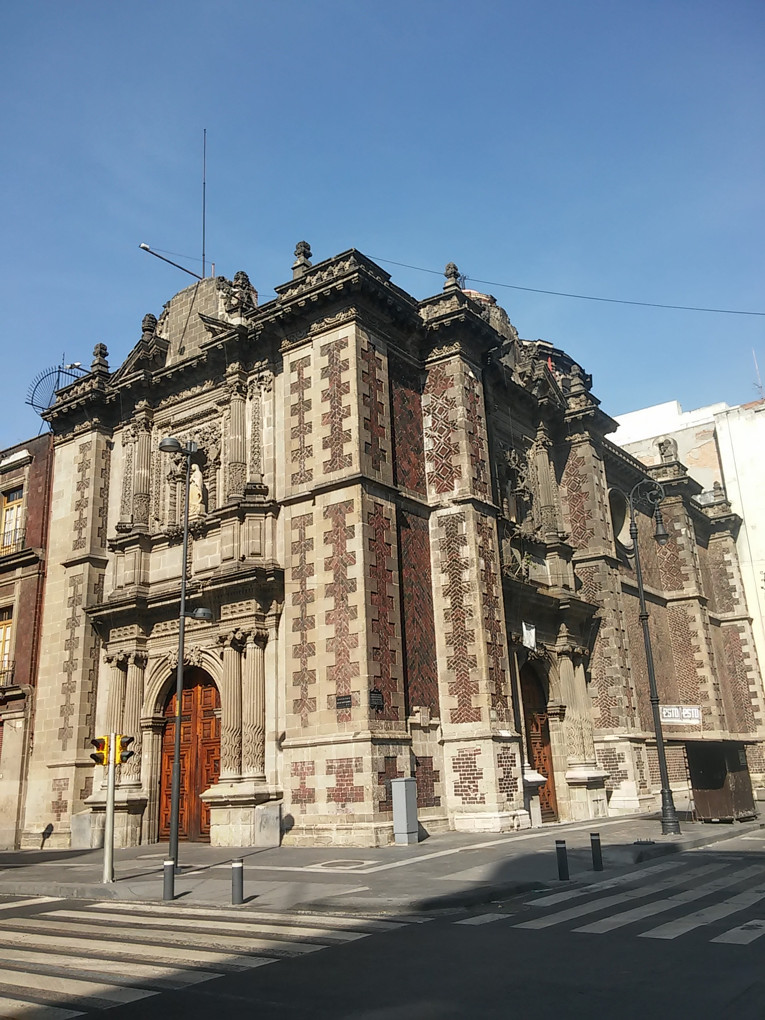 Vista de ambas fachadas del templo de san Bernardo, en el centro histórico de la ciudad de México